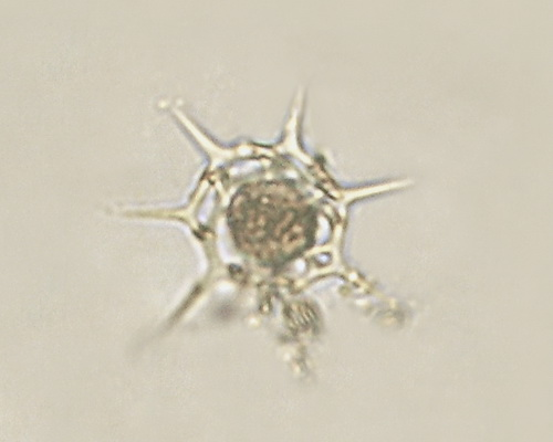 North-West Black Sea, surface water